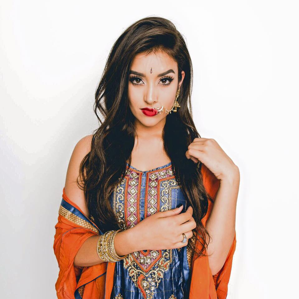 Anjali world with Crown Promo